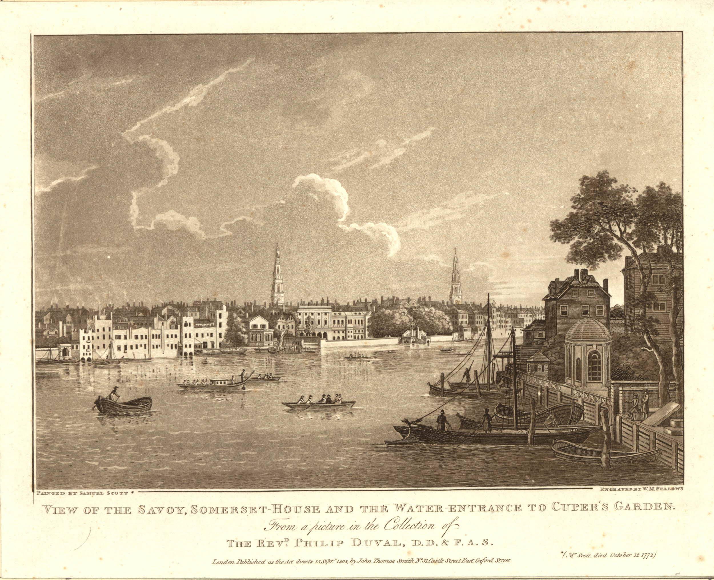 View of the Savoy, Somerset House and the Water Entrance to Cuper's Garden "from a picture in the Collection of the Rev'd Philip Duval".